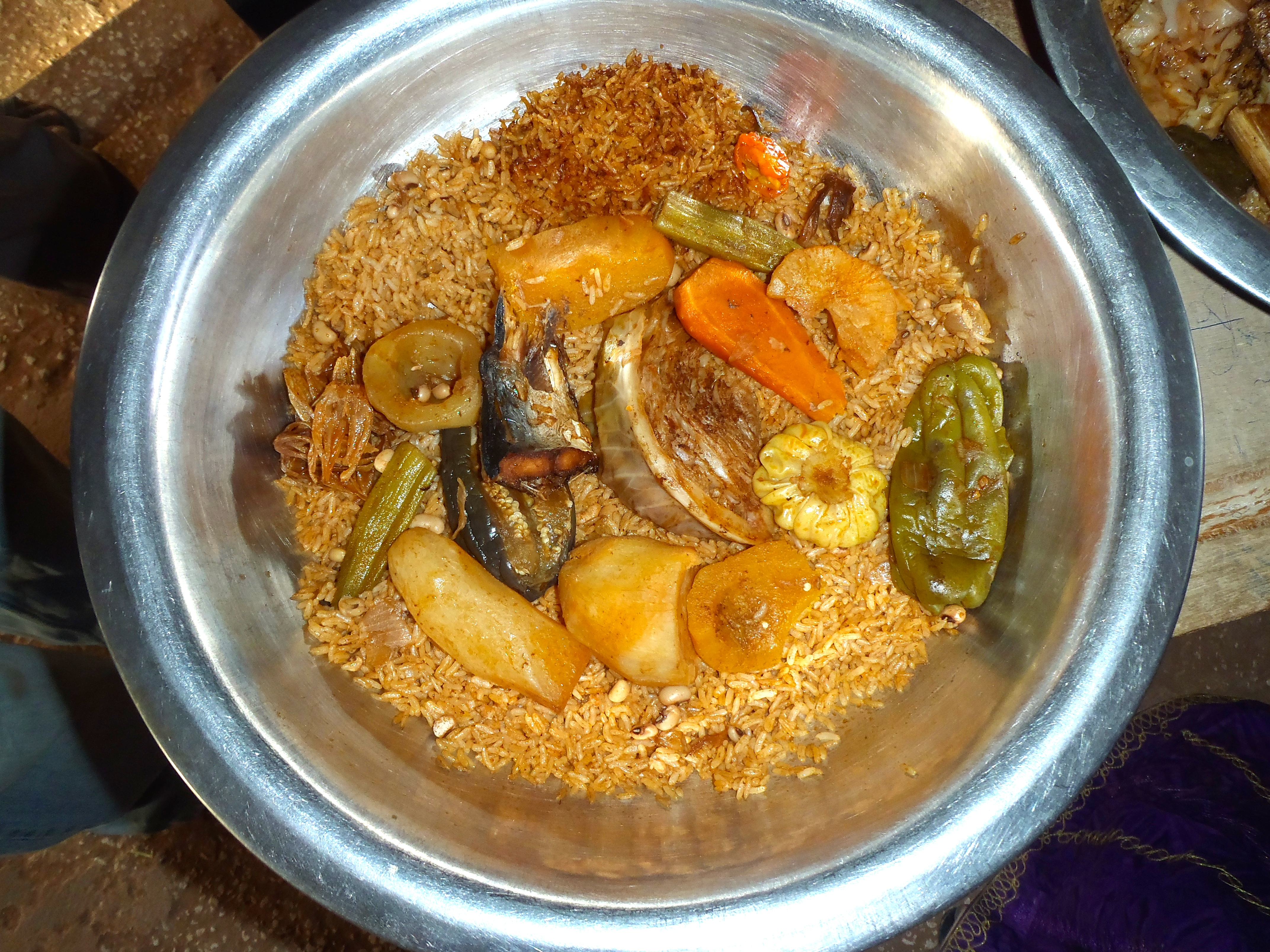 In Senegal's national dish, Fish is stewed or fired with vegetables and served over rice flavored with tomato paste. Other toppings include tamarind sauce, bissap leaf sauce, and onion sauce. This is an image of food from Senegal